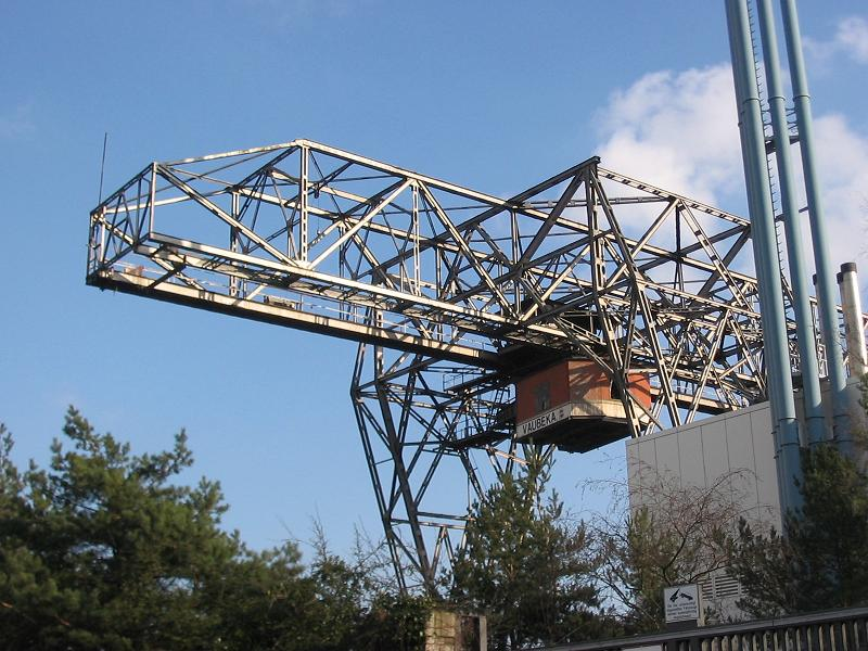 Listed VAUBEKA-Portainer, built in 1935, at the Teilestraße and the Teltowkanal in Berlin-Tempelhof.